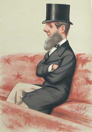 Caricature of Francis Russell, 9th Duke of Bedford. Caption reads "The head of the Russells".